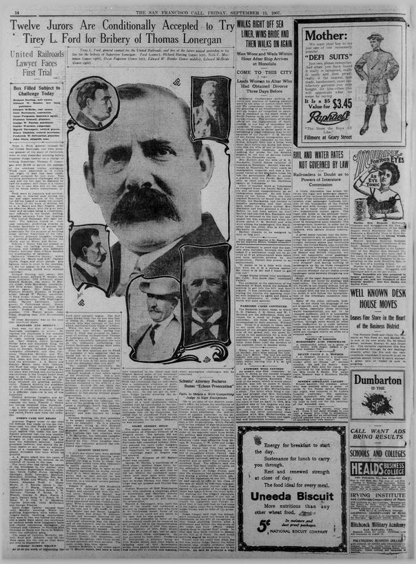 From The San Francisco call. [volume] (San Francisco [Calif.]) 1895-1913, September 13, 1907, Page 14, Image 14, "Twelve Jurors Are Conditionally Accepted to Try Tirey L. Ford for Bribery of Thomas Lonergan"